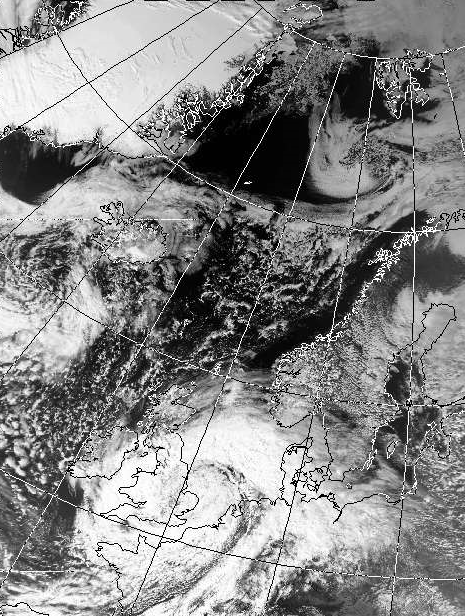 Hurricane Charley as viewed from the NOAA 9 Satellite